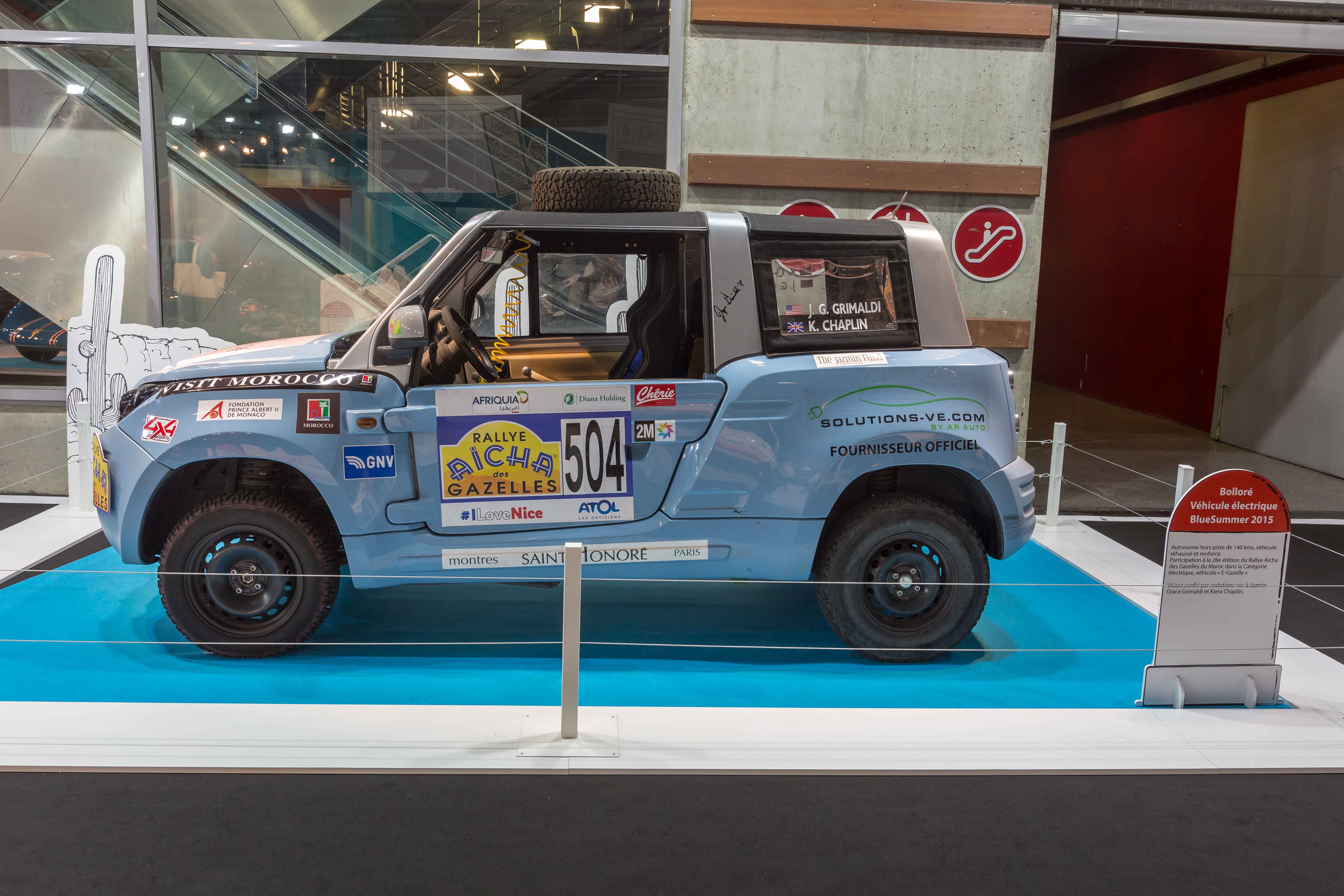 Press days at Mondial Paris Motor Show 2018